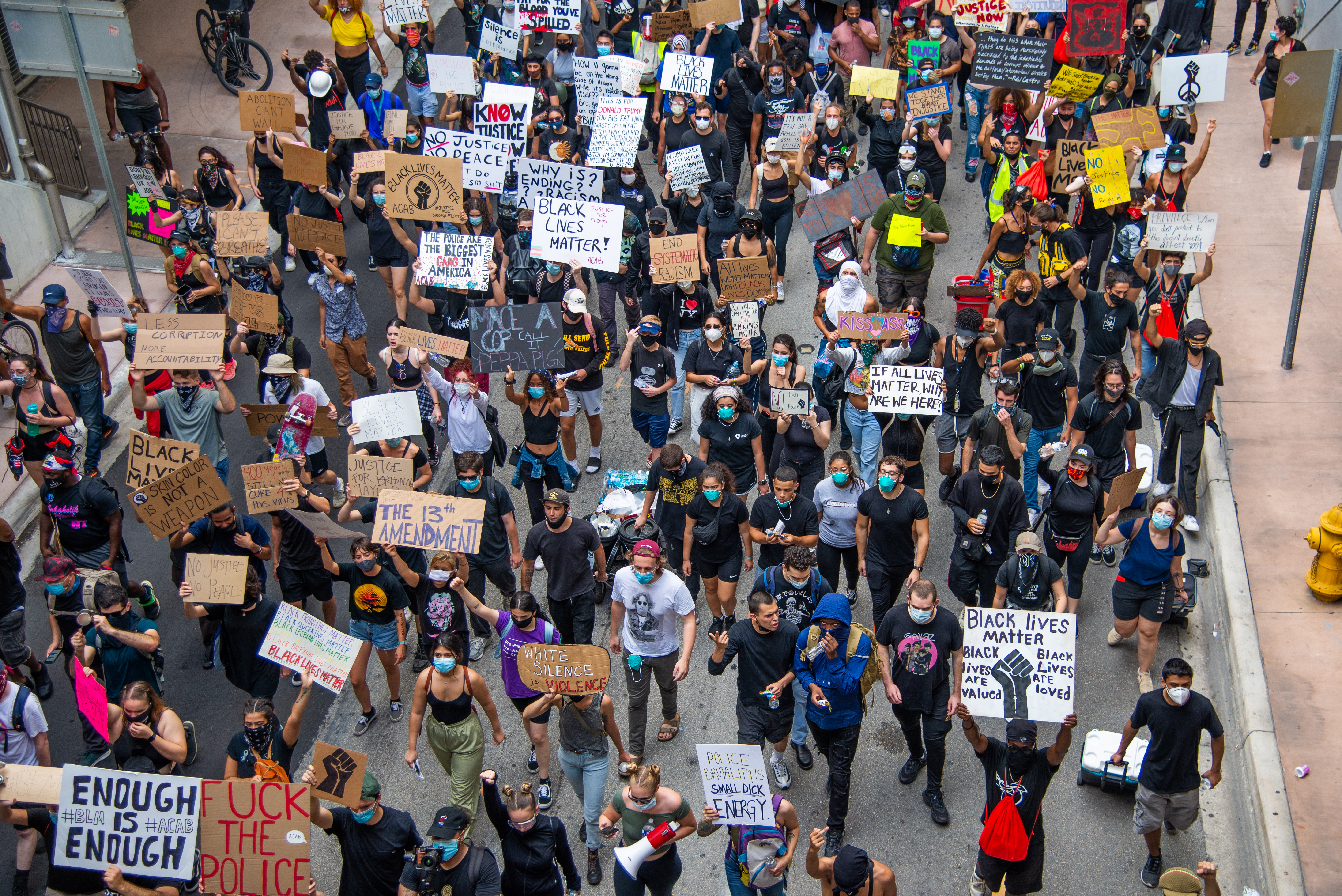 Protesters meet police on I-95 during the Downtown Miami protests on June 12